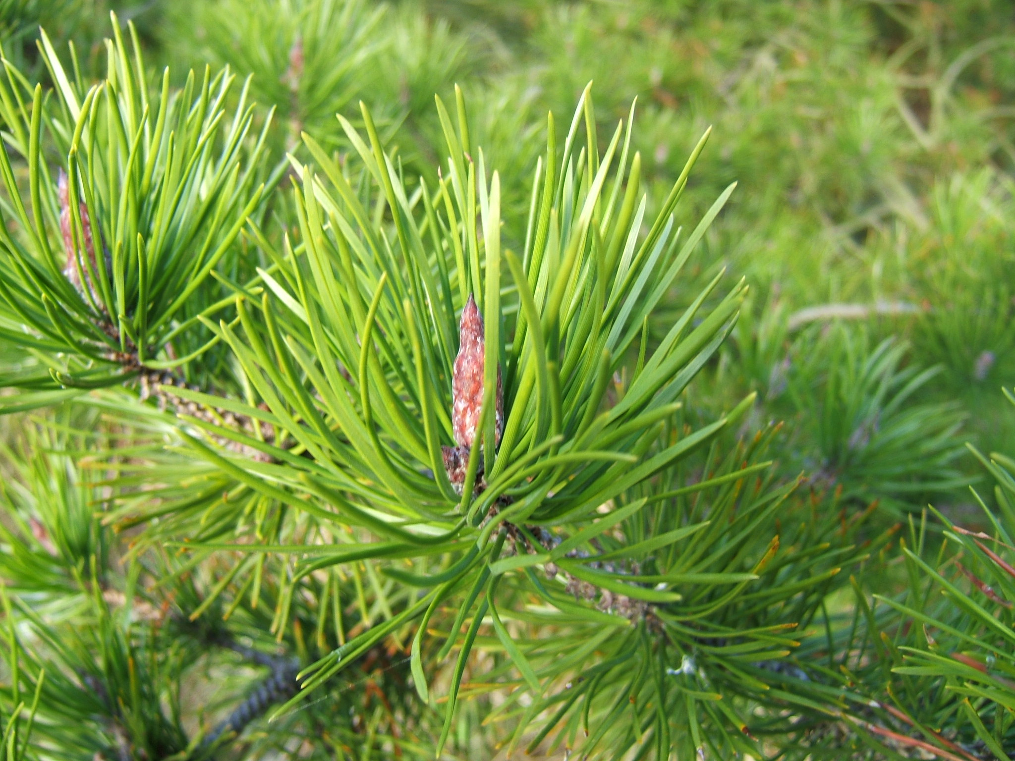 Pinus contorta subsp. contorta Naturalised trees, Swallow Pond, Wallsend, Northumberland, UK; November 2005